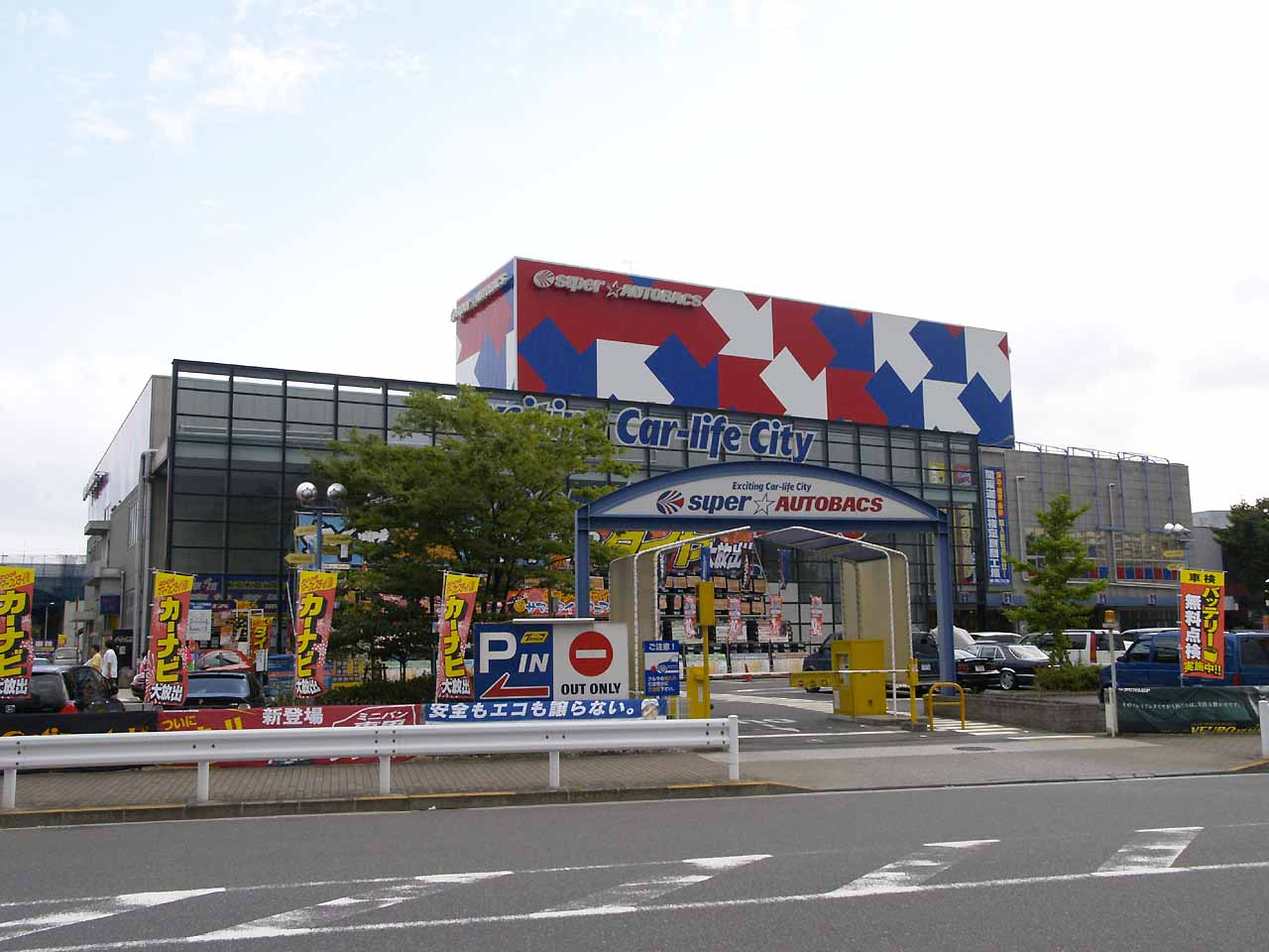 Super Autobacs Tokyo Bay Shinonome shop, a larger automotive parts shop, located in southeasten Tokyo, neighbour of Odaiba.